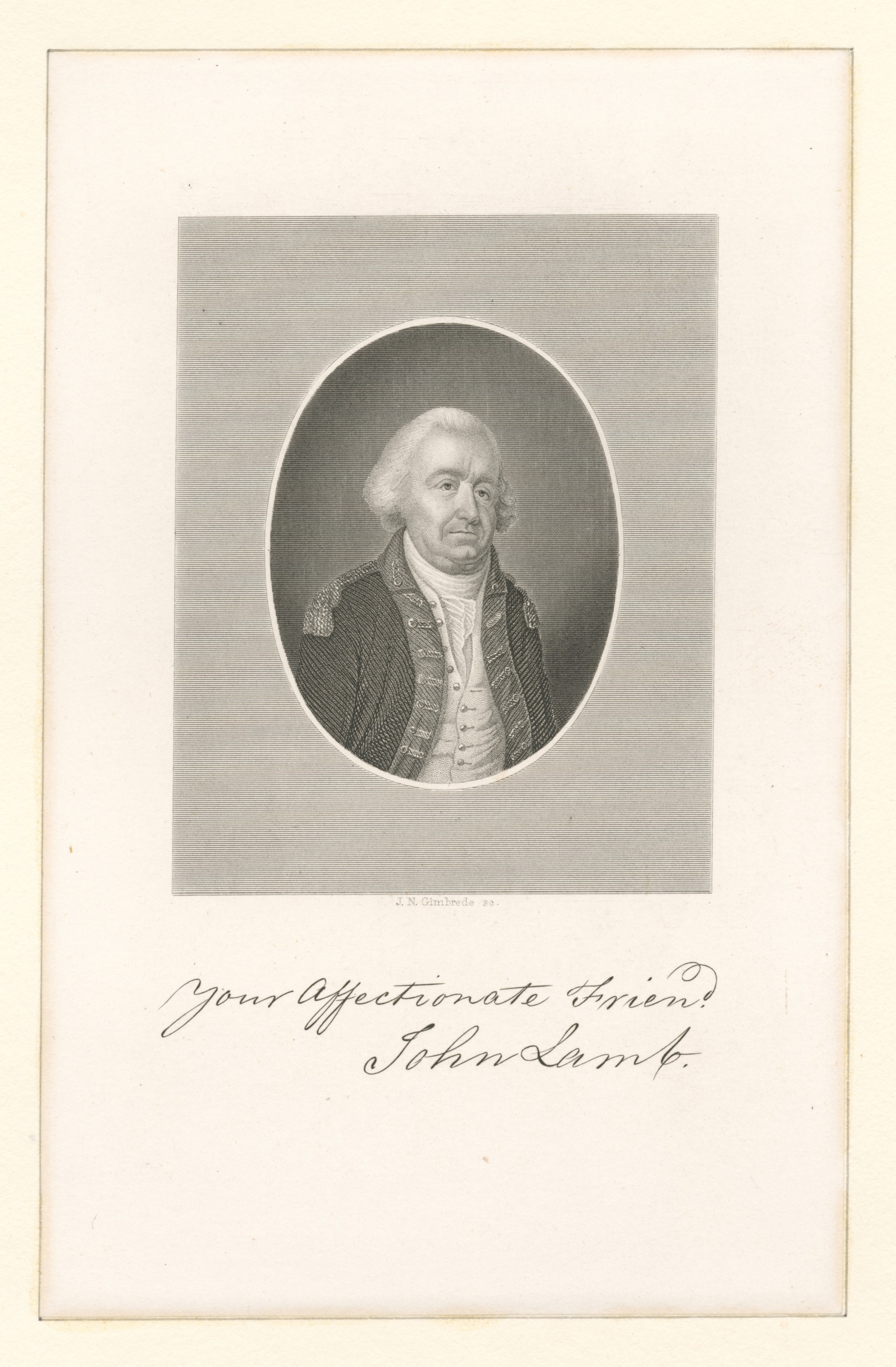 Volume numbers given here refer to the original volume numbers of the publication, not of Lossing's publication. Printmakers include A.B. Durand, H.B. Hall, John Hill, James Smillie and Edwin Whitefield. Title from title page of extra-illustrated volume. EM5485